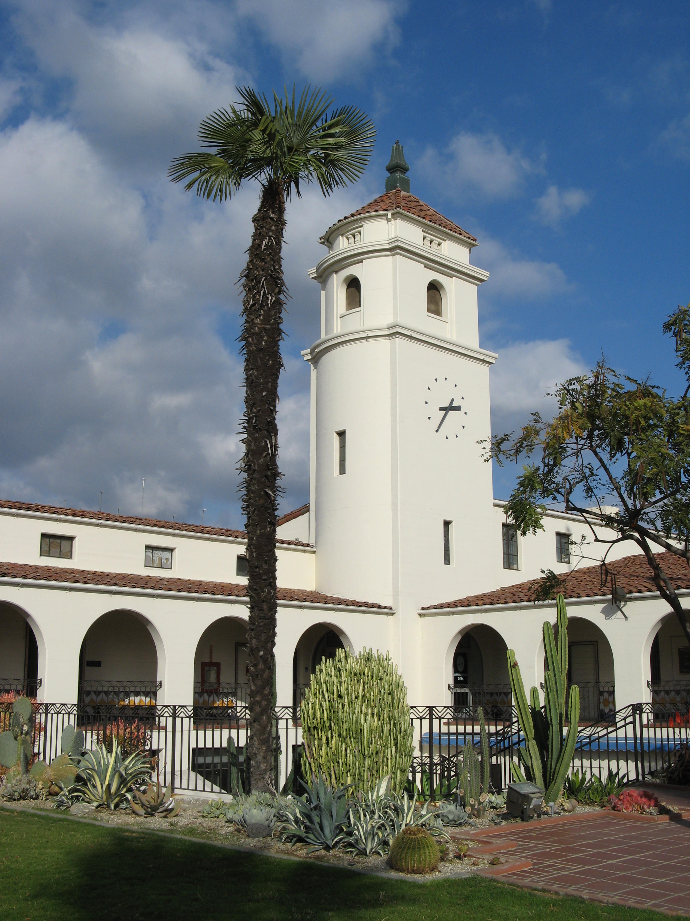 Fullerton Police Headquarter, the old Fullerton City Hall